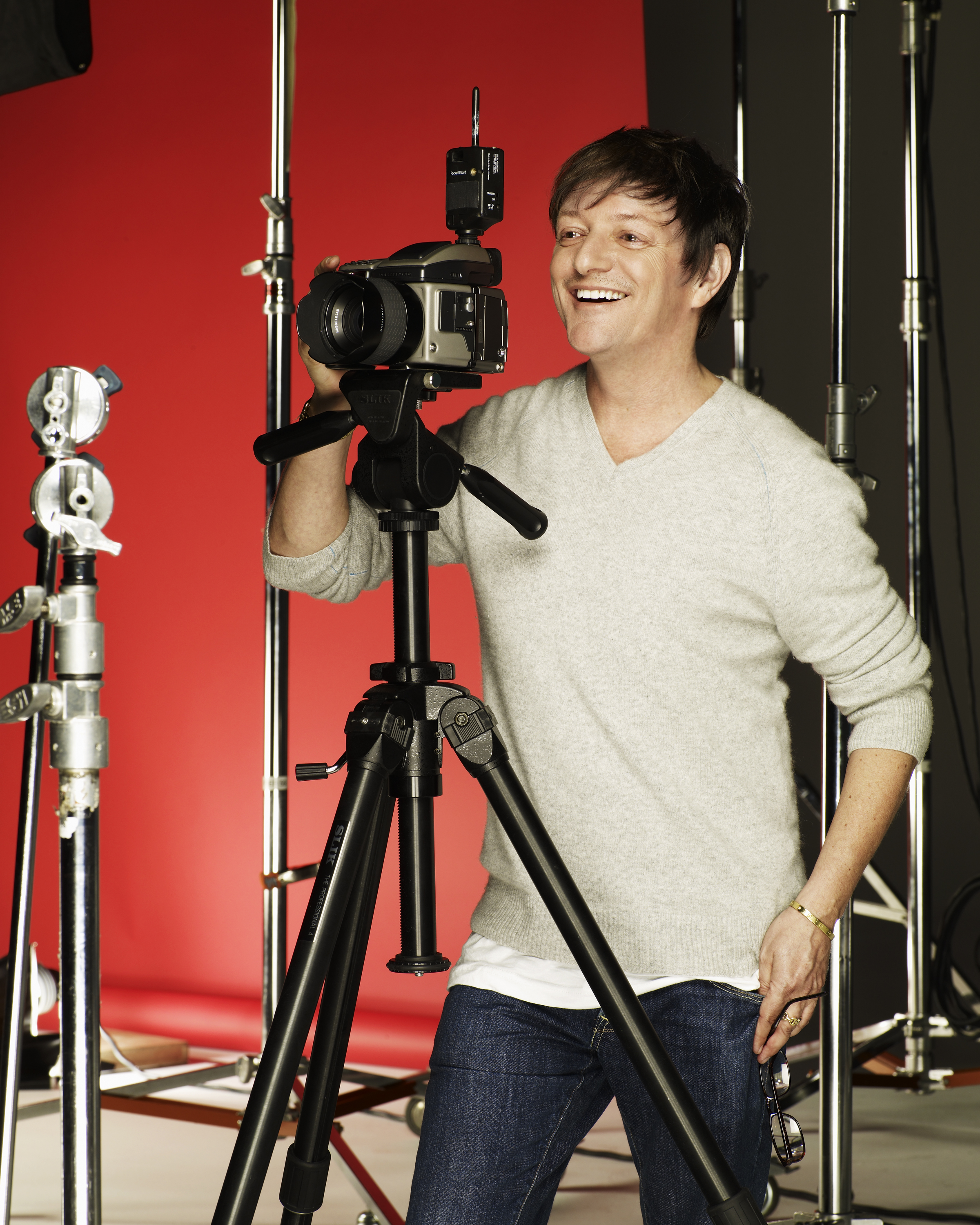 photo of Matthew Rolston on set of Oprah shoot